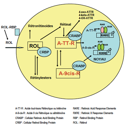 Figure 1. Métabolisme intra-cellulaire des rétinoïdes naturels